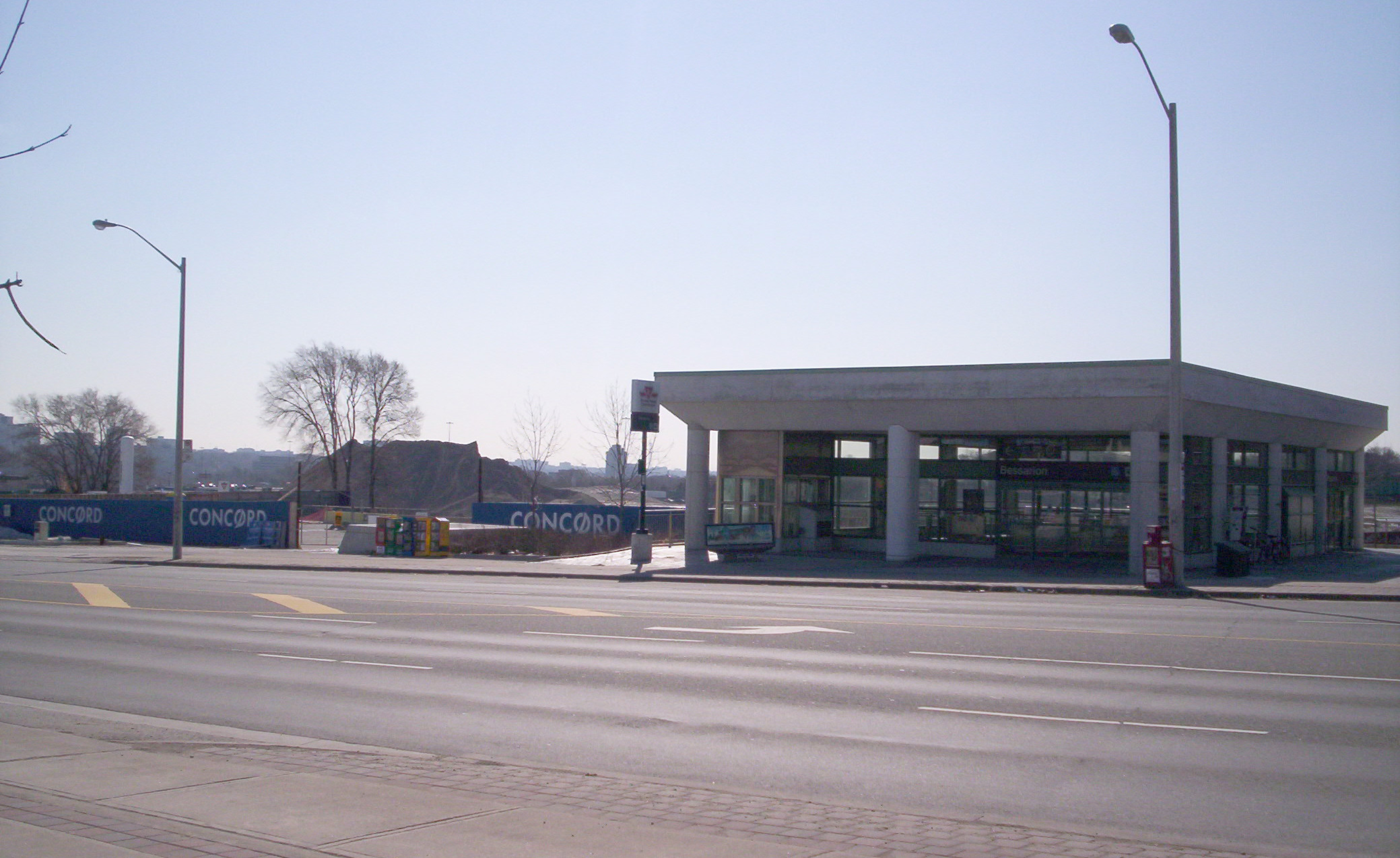 Bessarion subway and Concord development site